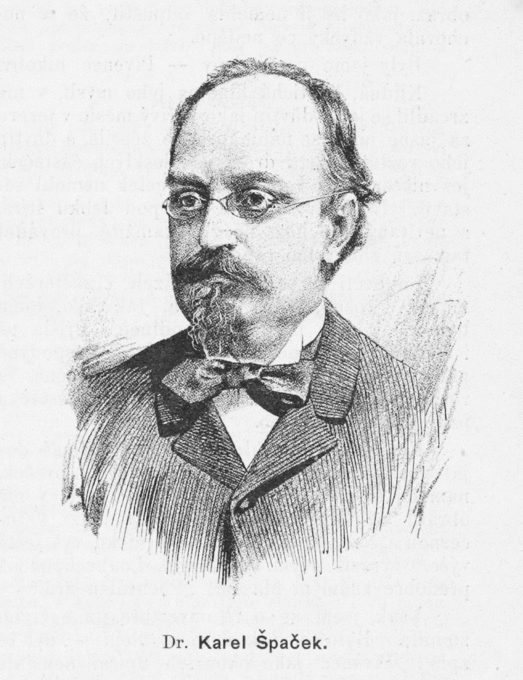 Portrait of Karel Špaček (1838-1898), Czech lawyer and politician